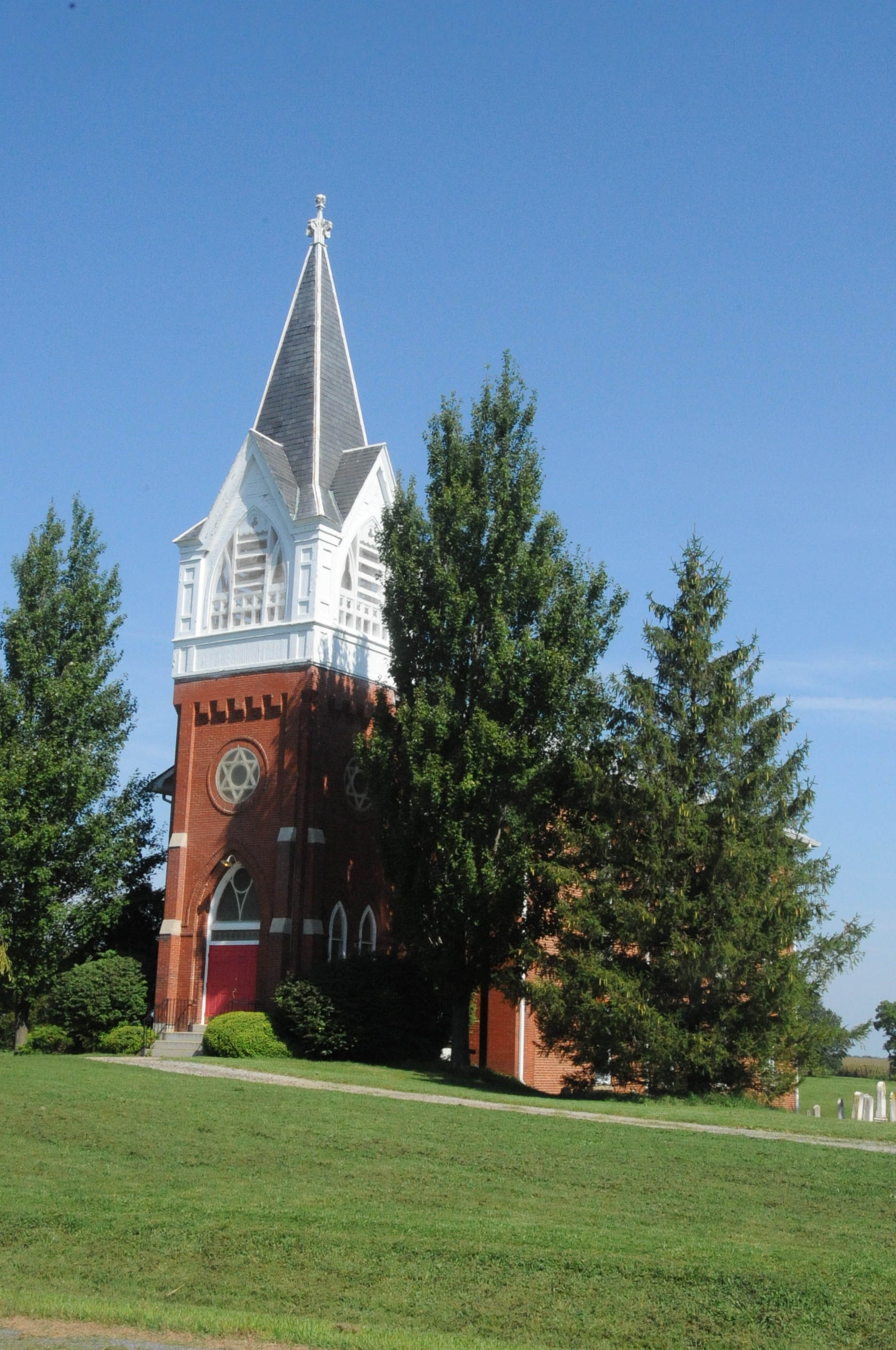 UNITED METHODIST CHURCH IS A NOTABLE STRUCTURE; BUILDINGS IN THE DISTRICT DATE FROM EARLY 19TH CENTURY TO THE 1930’S BUT NO DATE IS GIVEN FOR THIS CHURCH